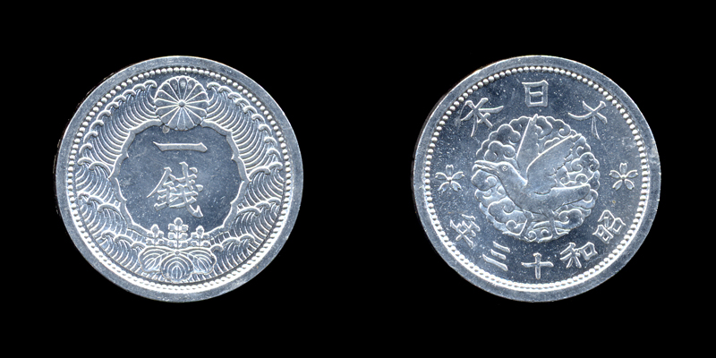 1sen-aluminium-S13